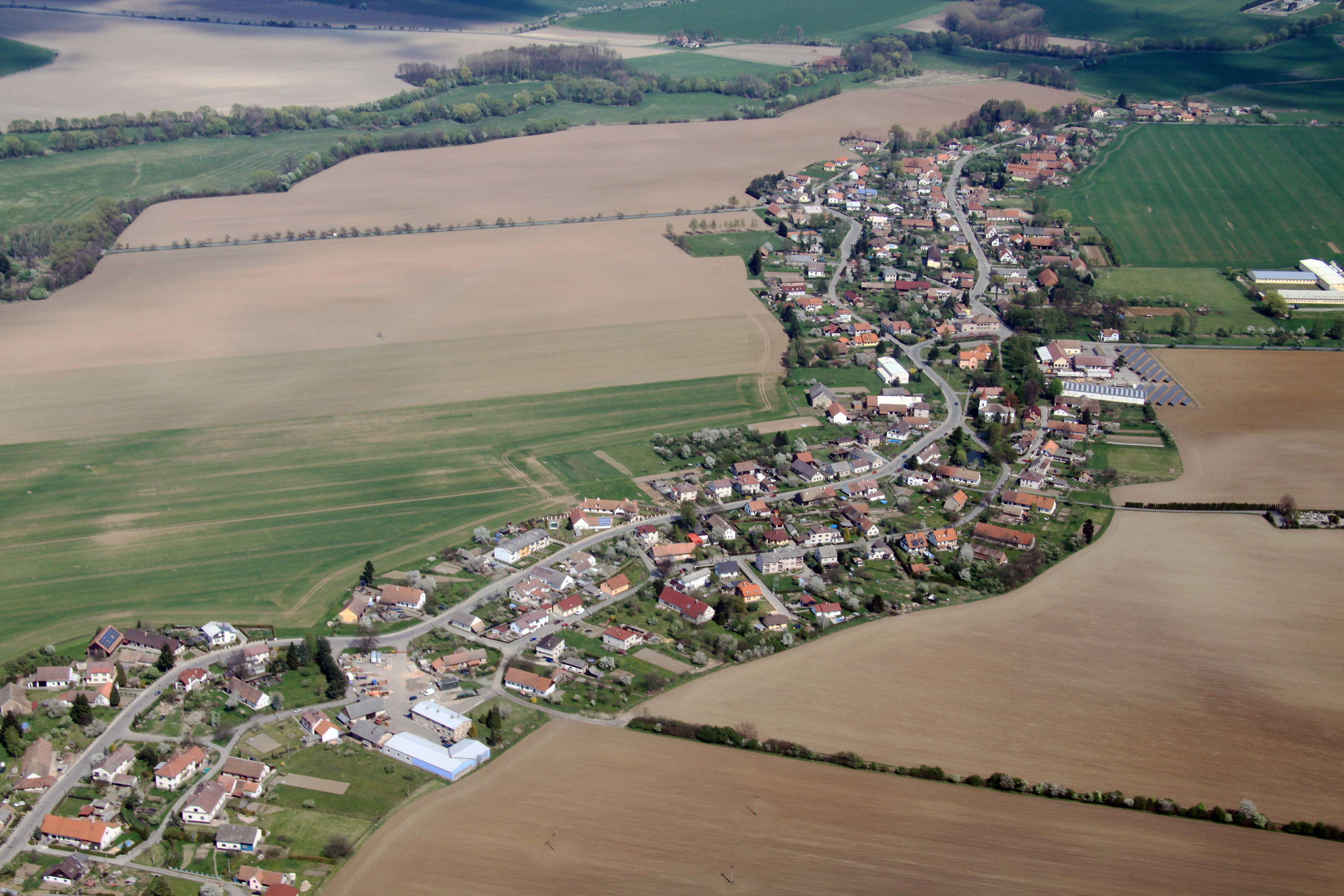 Village Pohoří- Rychnov nad Kněžnou District, from air, eastern Bohemia, Czech Republic